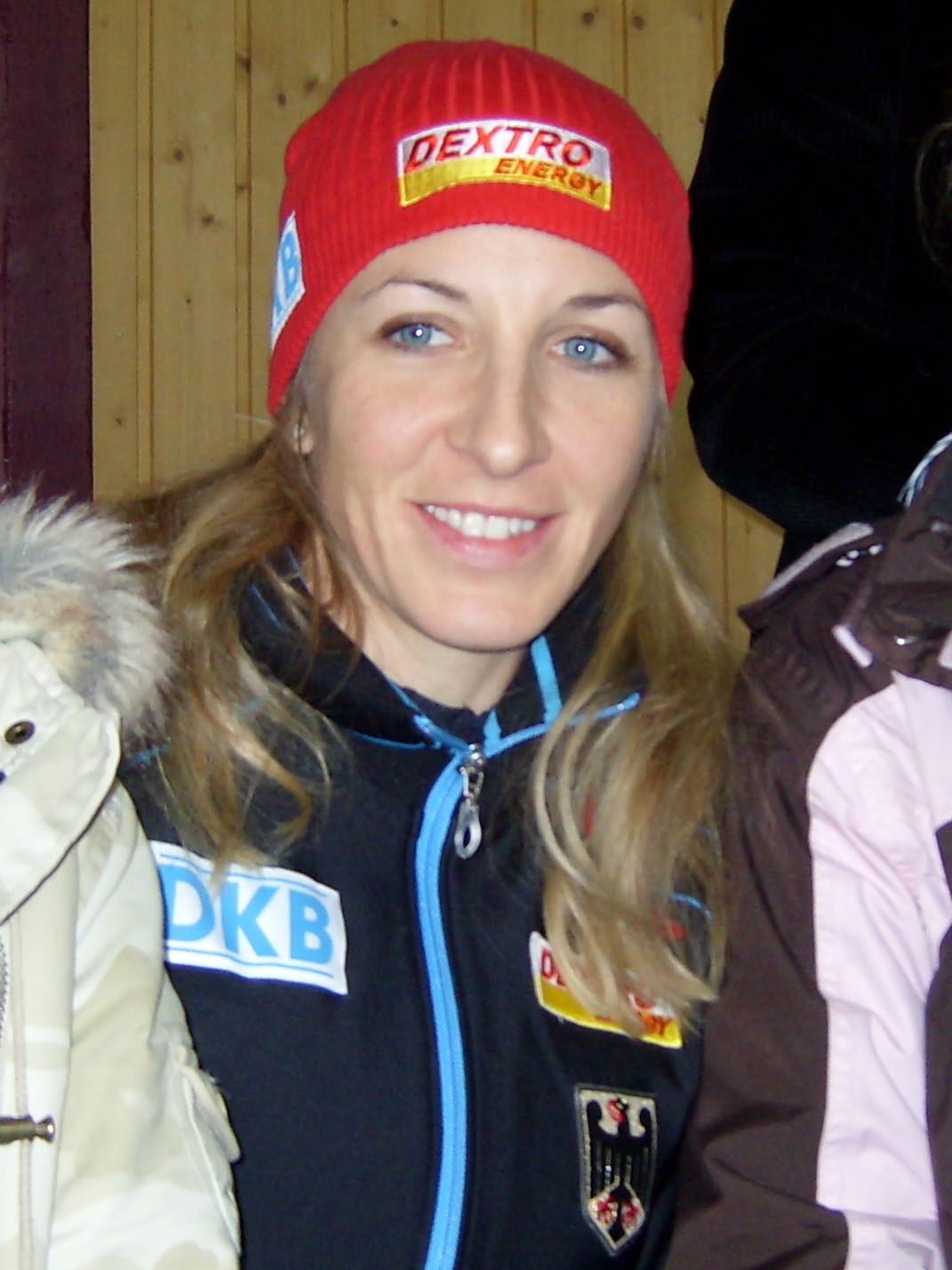 Anni Friesinger (GER) visiting the 1st World Cup Speed Skating in Berlin, Germany.